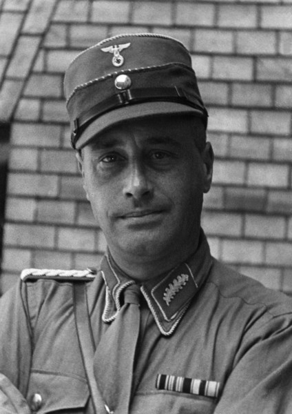 Otto Kunze: Chief of the job-creating agency of the Berlin branch of the Sturmabteilung (SA) in 1933.